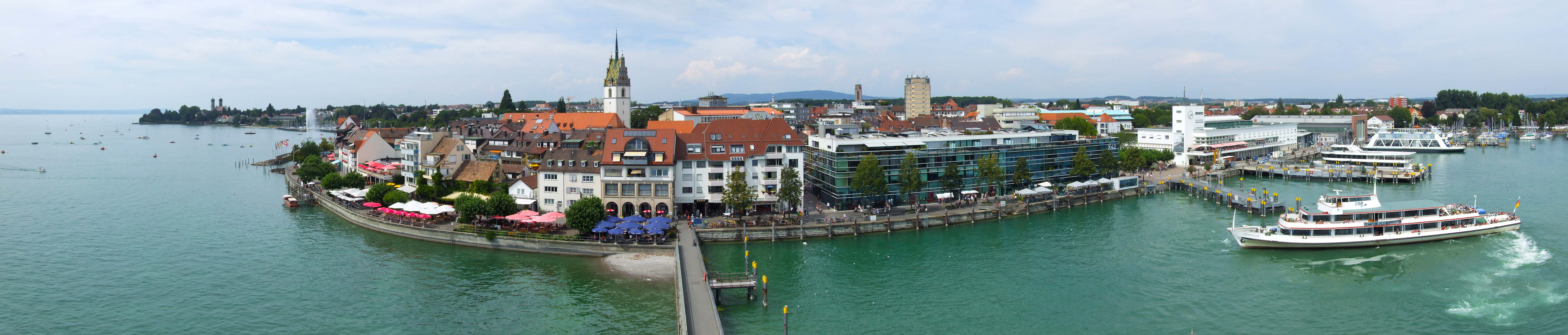 Panorama of Friedrichshafen, taken from the Moleturm.